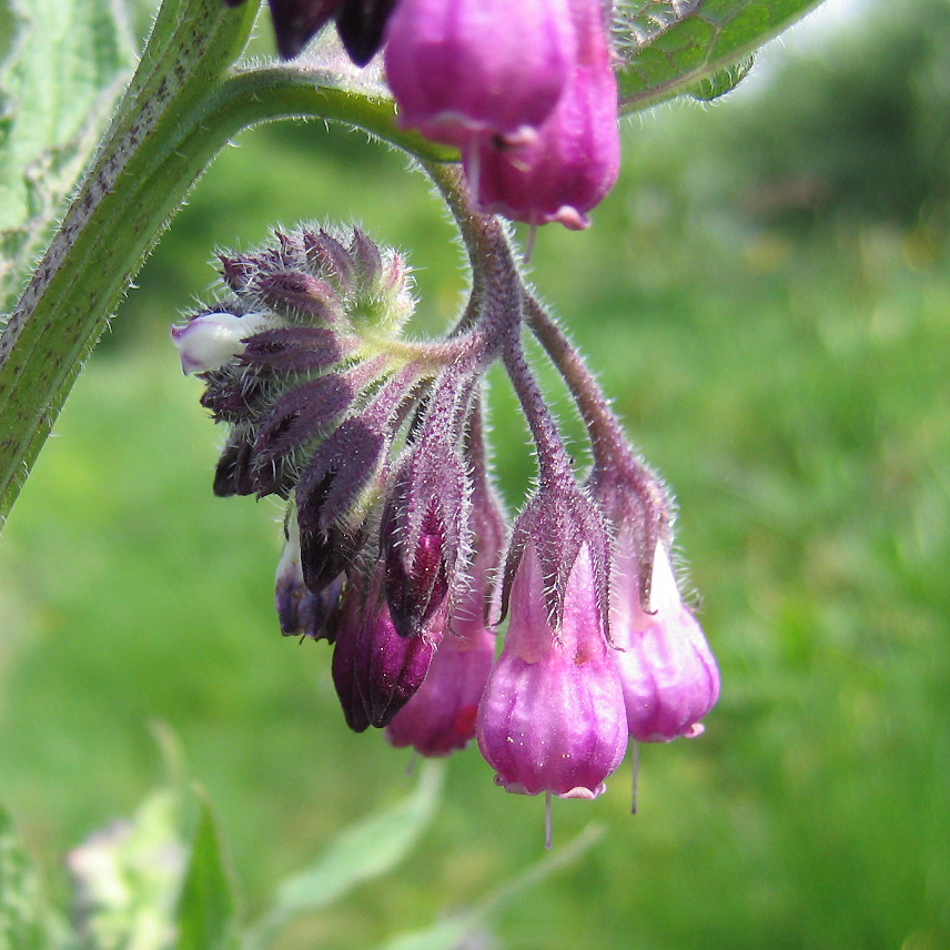 Common comfrey (Symphytum officinale) inflorescence, growing on the bank of the larger pond in the Sołtysowicki Forest, Wrocław, Poland.